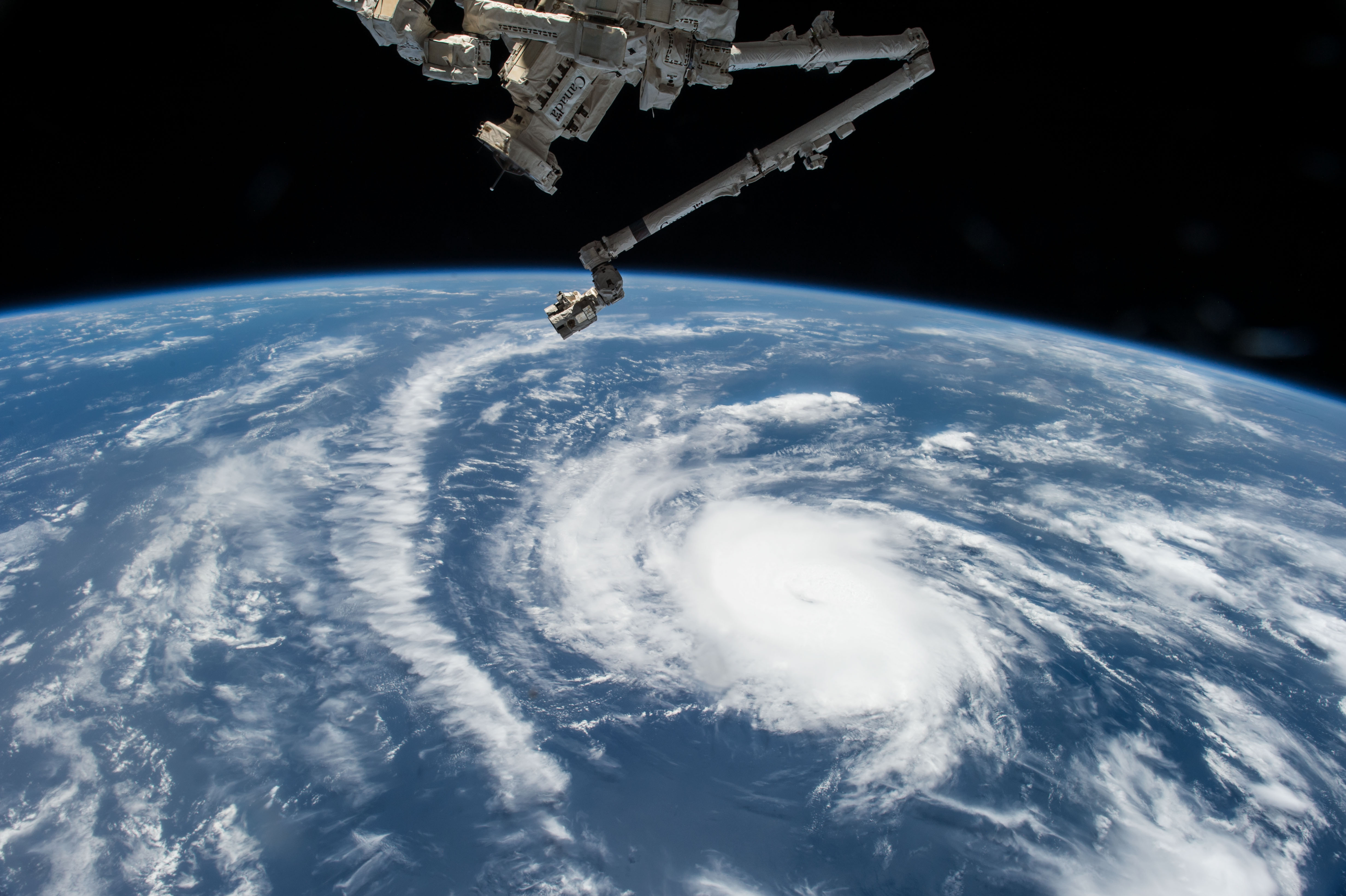 NASA astronaut Scott Kelly photographed Hurricane Danny as the International Space Station orbited over the central Atlantic Ocean on Aug. 20. He tweeted this image from his Twitter account @StationCDRKelly here...